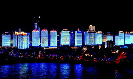 This is the light show on September 25th, 2018, celebrating Mid-autumn Festival cross the sea of May Fourth Square